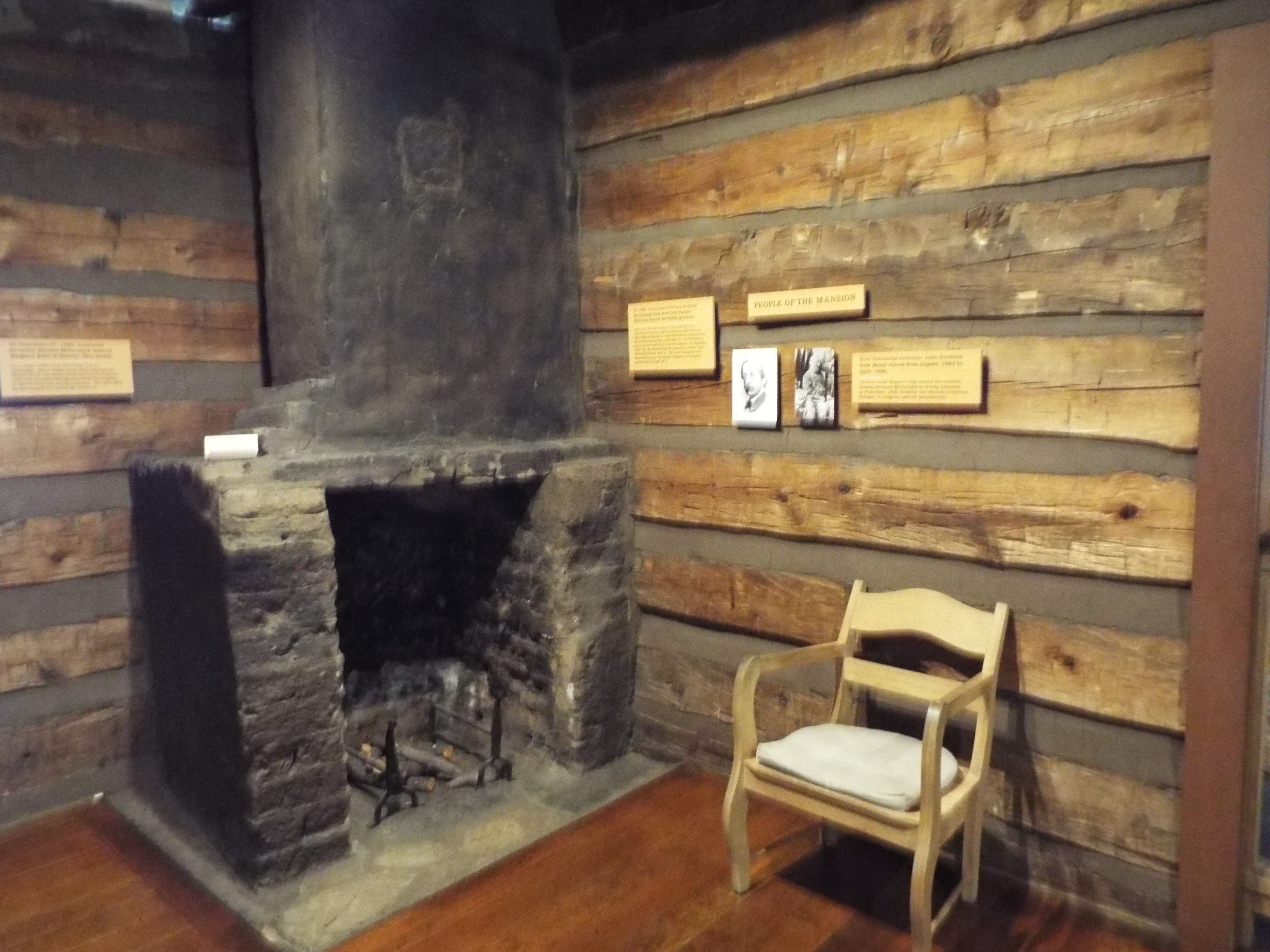 The Governor’s Mansion is the oldest building associated with Arizona Territory still standing on its original location. It was the center of Arizona’s territorial government from 1864-1867. Territorial Governor John Goodwin founded the territorial capital of Arizona near Granite Creek in the location where it currently stands.